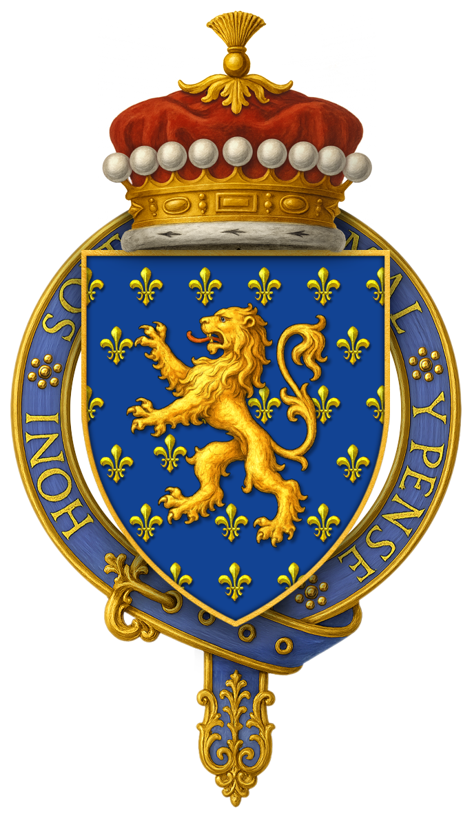 Unquartered arms of Sir John Beaumont, 1st Viscount Beaumont, KG BURKE, Sir Bernard, The General Armory of England, Scotland, Ireland, and Wales: Comprising a Registry of Armorial Bearings from the Earliest to the Present Time, London: Harrison & sons, 1884. “ Beaumont (Viscount Beaumont)... same arms [Az. semee of fleur-de-lis a lion ramp, or, quartering three garbs or, for Comyn. ”